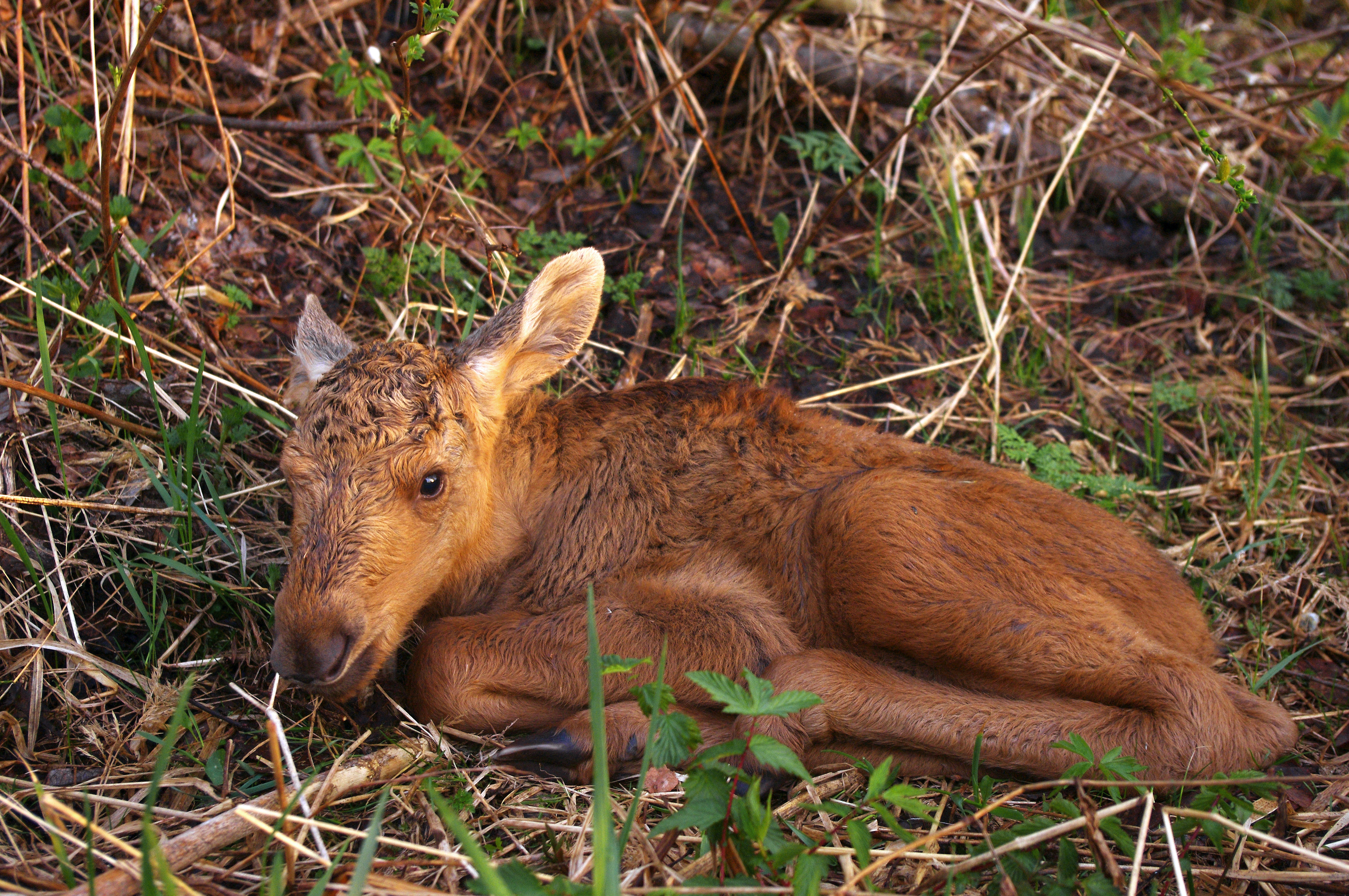 Eurasian elk calf in Albu parish, Estonia; May 12th 2011